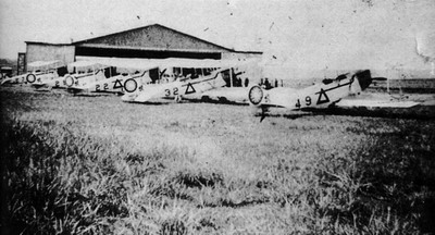 These Japanese made military aircrafts were ordered by the People's Revolutionary Government of the Republic of China (Fujian), but were not delivered by the end of the short-lived government. Then they were sold to Guangxi Province of China in 1934.